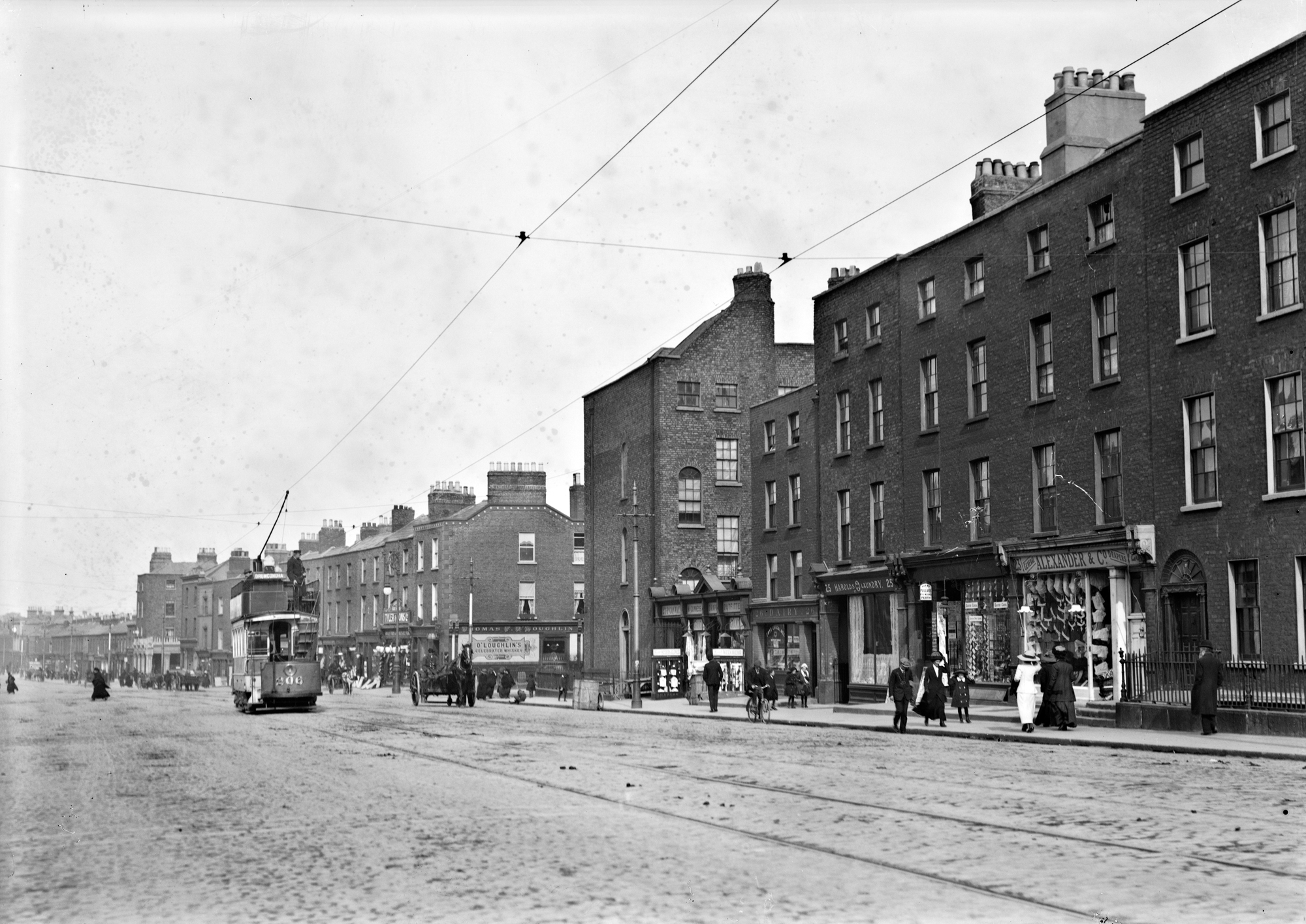 A visit to the Eason collection for Tuesday with a great and busy view of Dorset Street in Dublin's city centre. While it does not have the clarity and detail of yesterdays Lawrence Royal plate it has lots going on and plenty of names to aid an exciting search! Following an initial "gut feel" from [/photos/beachcomberaustralia/ Beachcomber], and some slightly more evidence-based sleuthing by [/photos/bernardhealy/ Bernard Healy] (assisted by [/photos/gnmcauley/ Niall McAuley]), it seems likely that this image was taken around 1913 - give or take a few years. Probably in the run-up to Easter. This is based on the cards on offer at no.24 Dorest Street, but mainly on the (perhaps then newly opened) Tylers bootstore at no.29. Just goes to show that there is room in our detective ranks for both the gut instinct of the gumshoe, and the hardslog of the criminalist :) Photographer: Unknown Collection: Eason Photographic Collection Date: Catalogue range c.1900-1939. Likely c.1913. Around Easter NLI Ref: EAS_1682 You can also view this image, and many thousands of others, on the NLI’s catalogue at